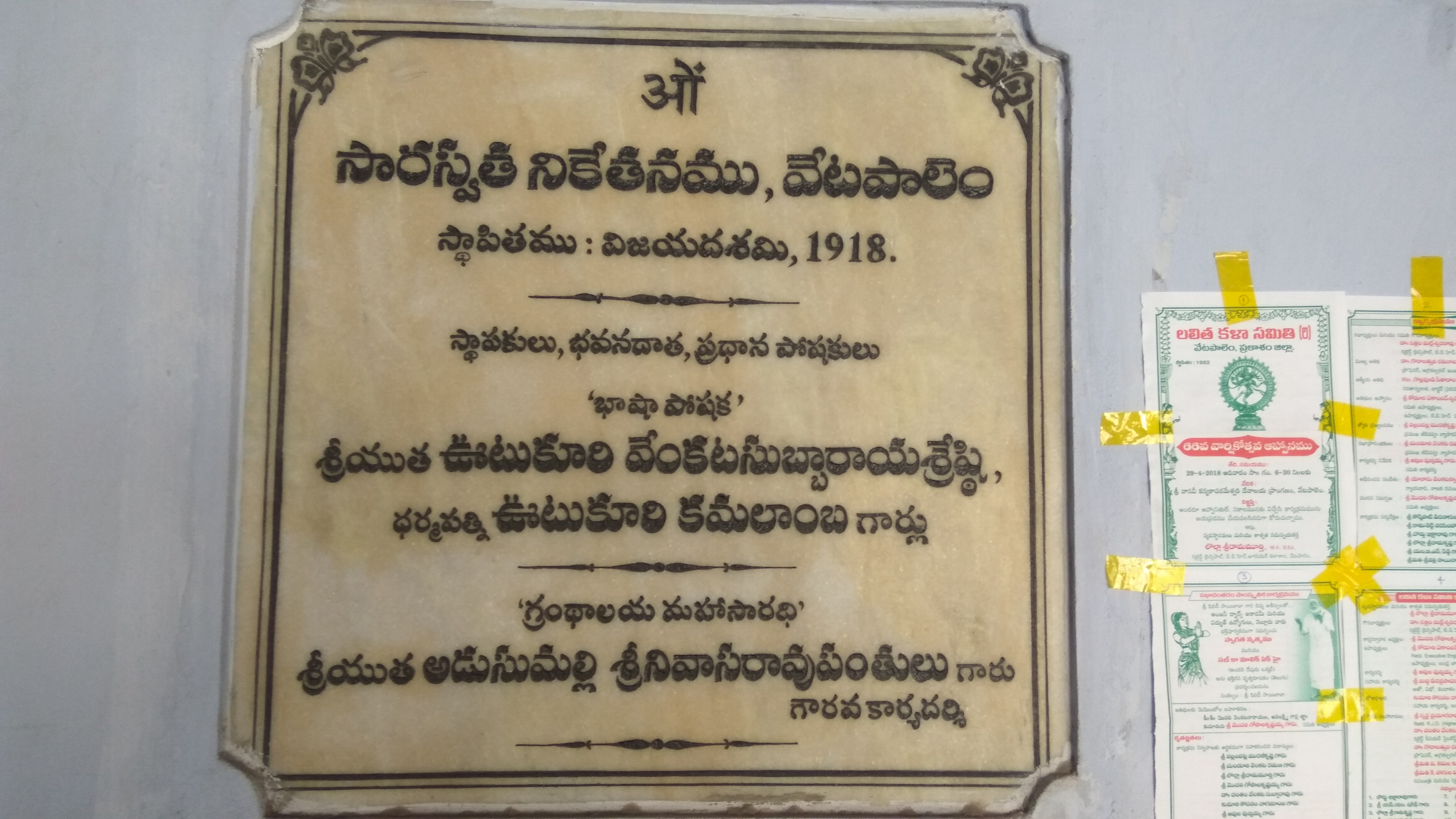 Stone Plaque of Vetapalem Library Opening